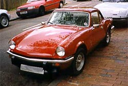 I am the author of this image. I took it of a car I used to own. It is scanned from a photo and I still have the negative. I blurred the number plate. A larger version of the image can be found on one of my websites - at: Thumbnail sized versions are also found on several other pages within the same site. I am uploading it for use on the Triumph Spitfire Wikipedia page which is currently lacking a photo for the Spitfire 1500 section.